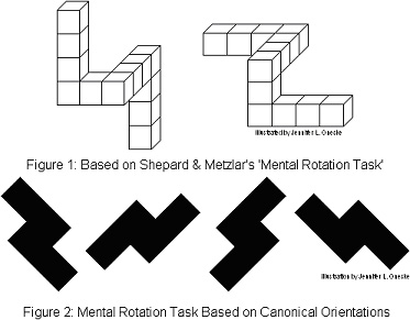 Created by Jennifer Oneske for use on wikipedia